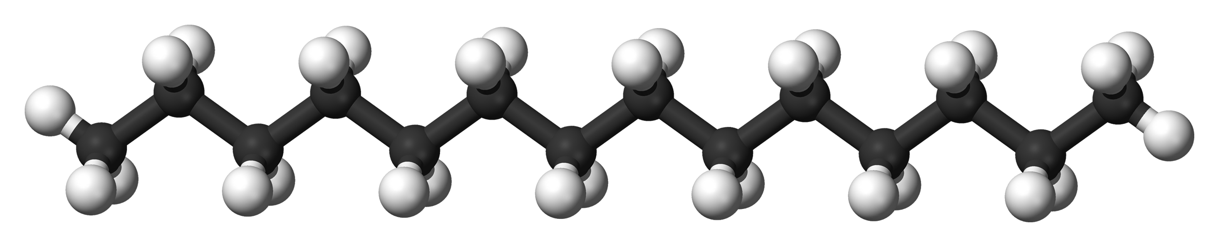 Ball-and-stick model of the tetradecane molecule, an unbranched alkane with 14 carbon atoms.